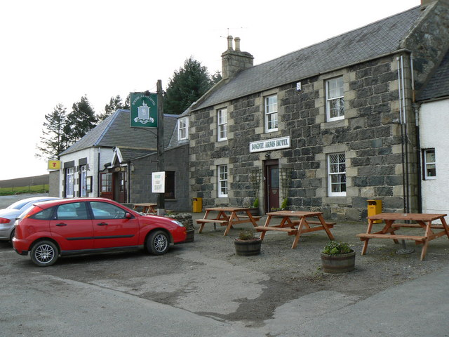 Bognie Arms Hotel on the A97 north of Huntly.